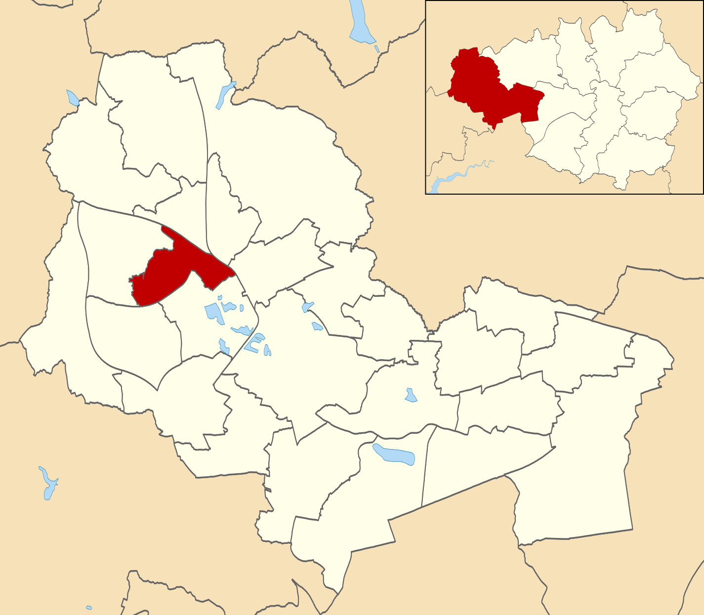 Map showing the location of Douglas ward within Wigan Metropolitan Borough Council